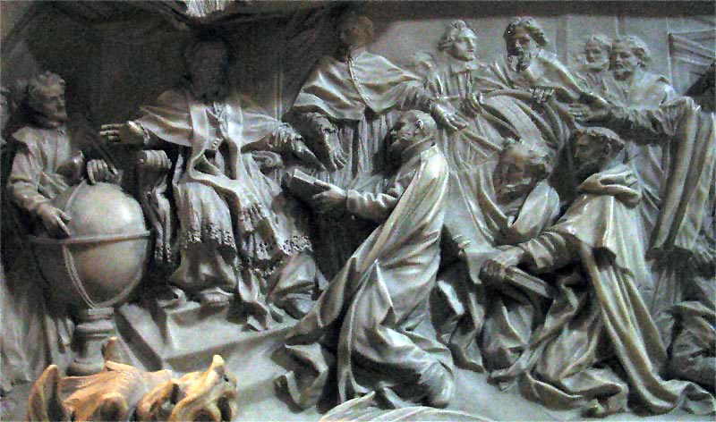 Inscription on the grave of Gregory XIII, St. Peter's Basilica, gregorian calendar